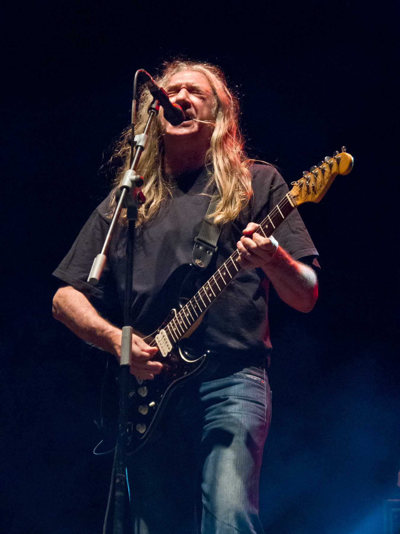 Rosendo performing in 2012.